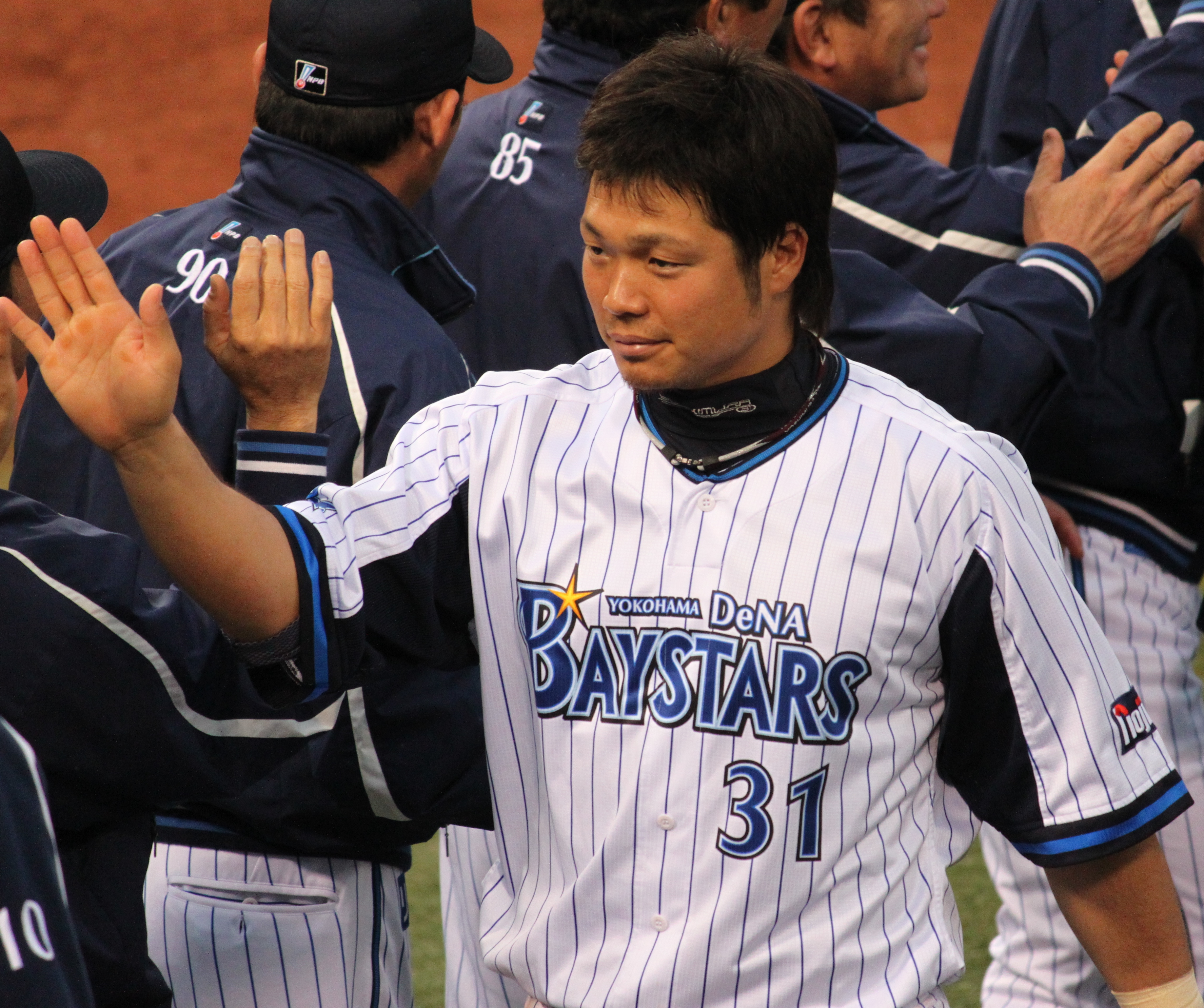 Yuki Yoshimura, outfielder of the Yokohama DeNA BayStars, at Yokohama Stadium.